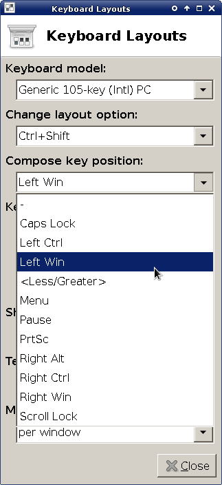 XFCE keyboard layout settings window, featuring a Compose key option.